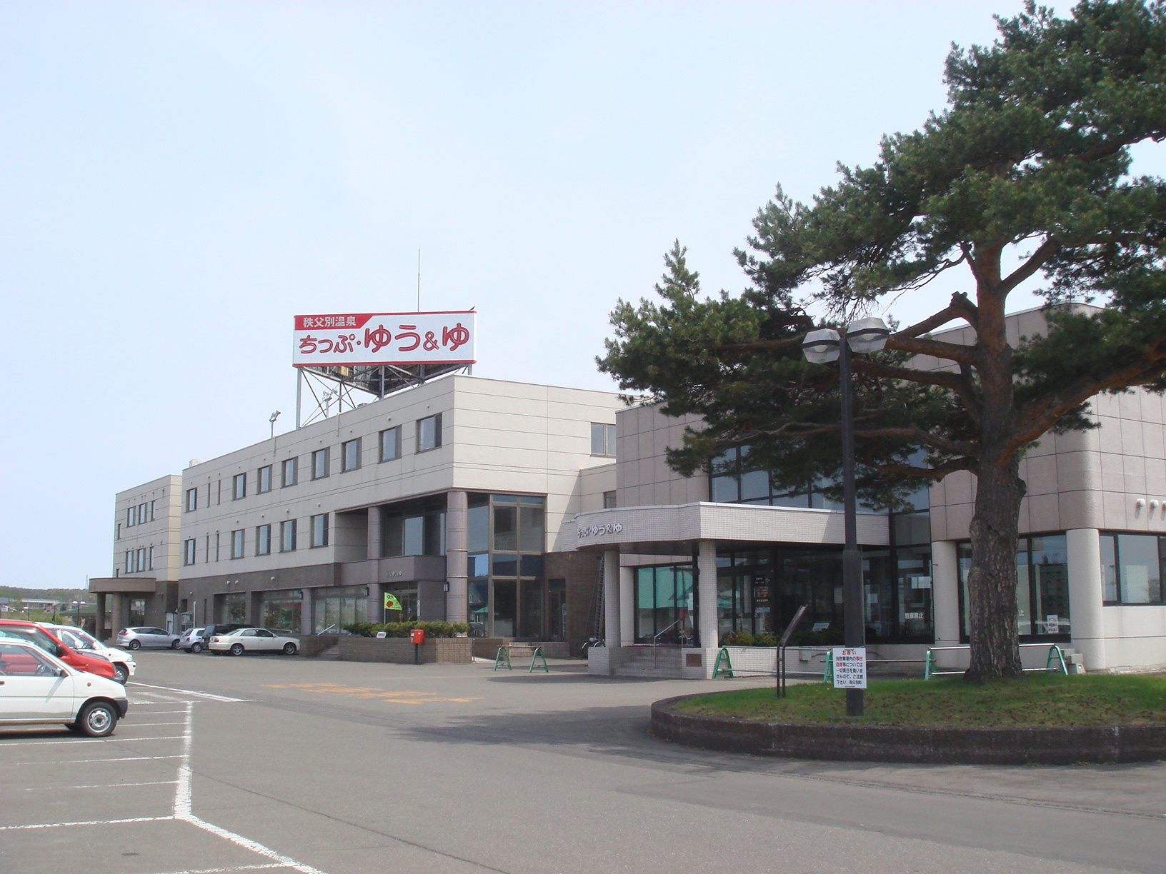 Chippubetsu Onsen in Chippubetsu, Hokkaidō